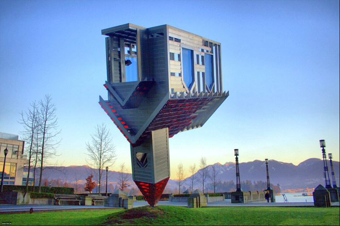 The world seems to be reversed